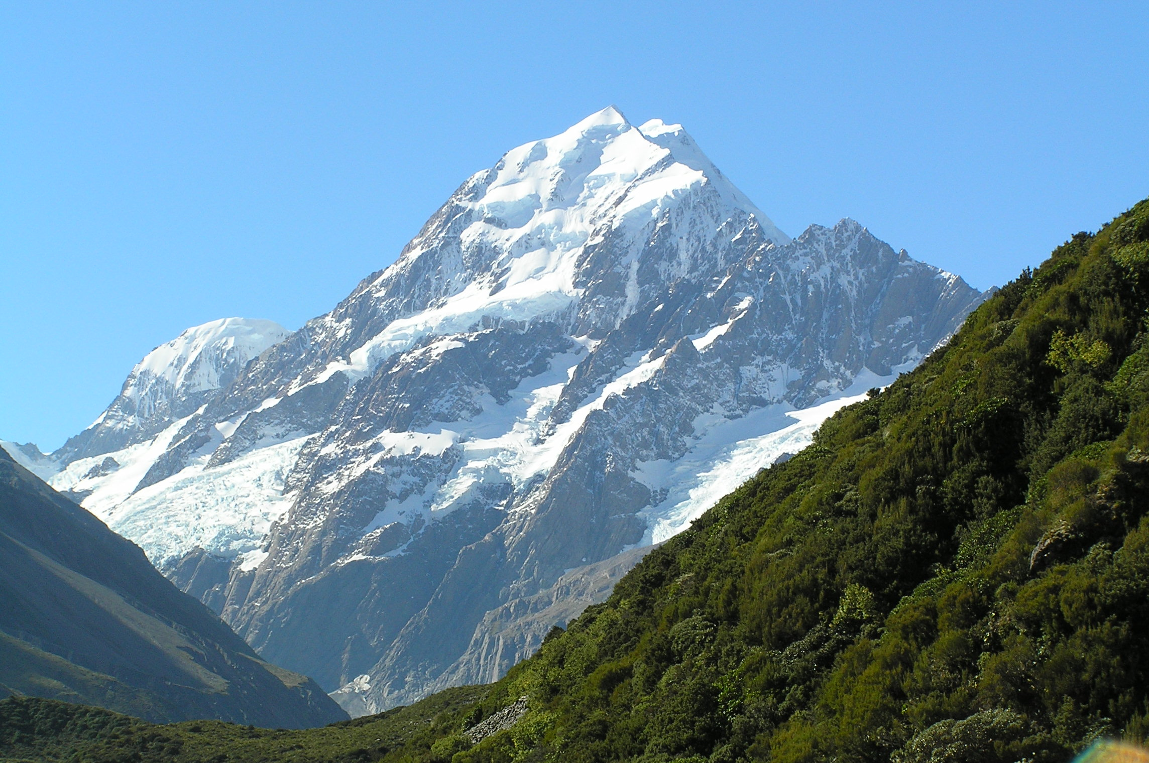 View of Aoraki/Mount Cook from valley of the River Hooker Author: Mr. Tickle Date: March, 2005